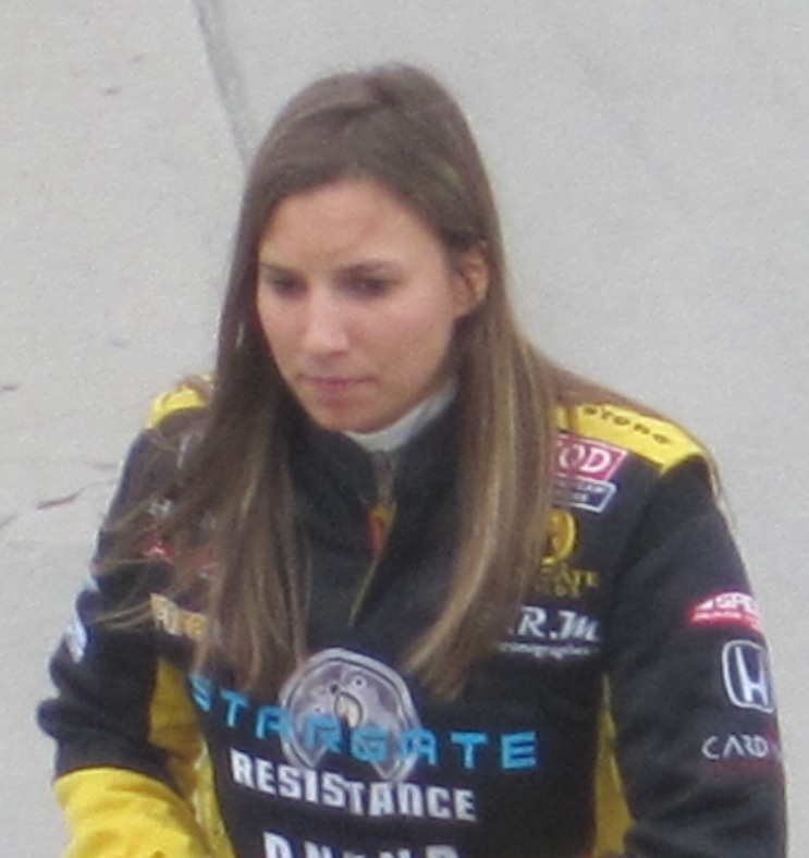 HVM Racing's Simona de Silvestro at the Indianapolis Motor Speedway for day 1 of practice for the 2010 Indianapolis 500 on Saturday, May 15, 2010.